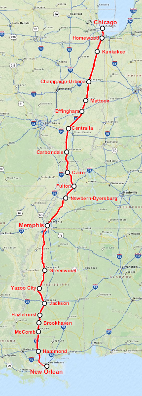 Amtrak City of New Orleans Legend: ━━━ Primary lines ━━━ Secondary lines ━━━ Tertiary lines